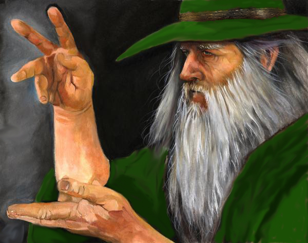 Mesto Conjuring A Breeze